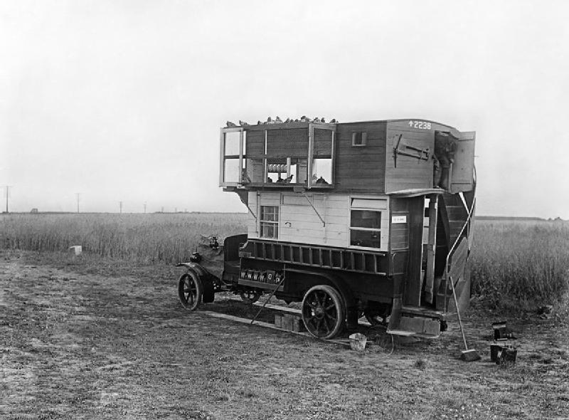 IWM description : "Carrier pigeons: A bus converted into a mobile pigeon loft on the Western Front."